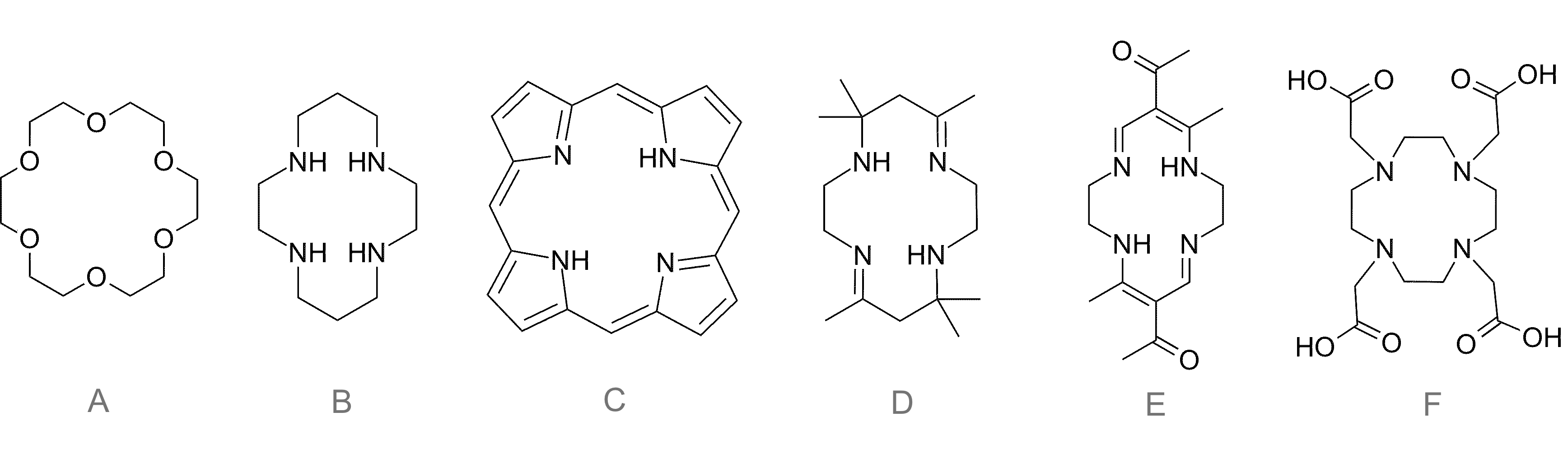 Macrocyclic structures (in inorganic and supramolecular chemistry), an example array. These representations of macrocyclic compounds were revised from existing File:Macrocycles.svg, for use on English wikipedia. Changes: Danish legend was removed, with the following key/text allowing for use in en.wikipedia and other venues: A, the crown ether, 18-crown-6; B, the simple tetra-aza chelator, cyclam; C, an example porphyrin, the unsubstituted porphine; D, the mixed amine/imine,the Curtis macrocycle; E, the related enamine/imine Jäger macrocycle, and F, the tetracarboxylate-derivative DOTA macrocycle. [File created from available individual chemistry graphic file, by simple editing in GraphicConverter9.] Le Prof